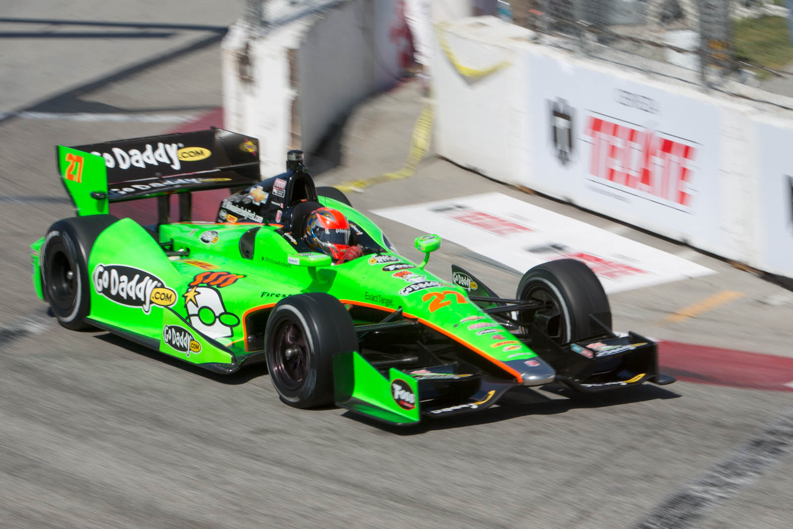 James Hinchcliffe at the 2012 Toyota Grand Prix of Long Beach